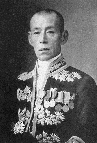 Ujiyuki Hojo